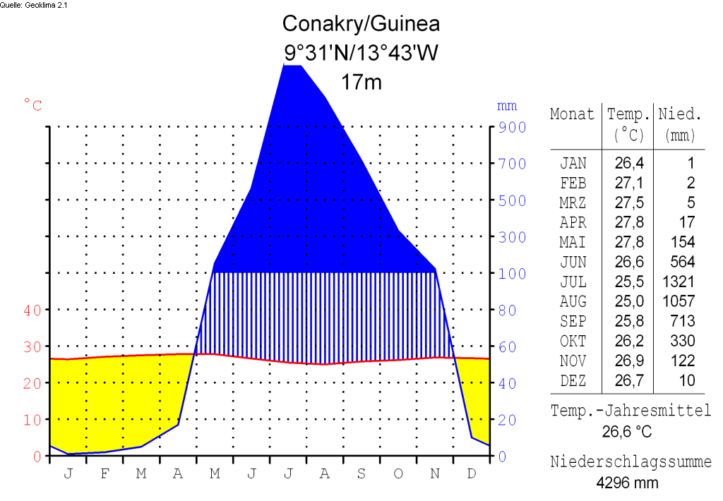 climate chart in the format by Walter and Lieth, metric, °Celsisus and millimeters, made with Geoklima 2.1